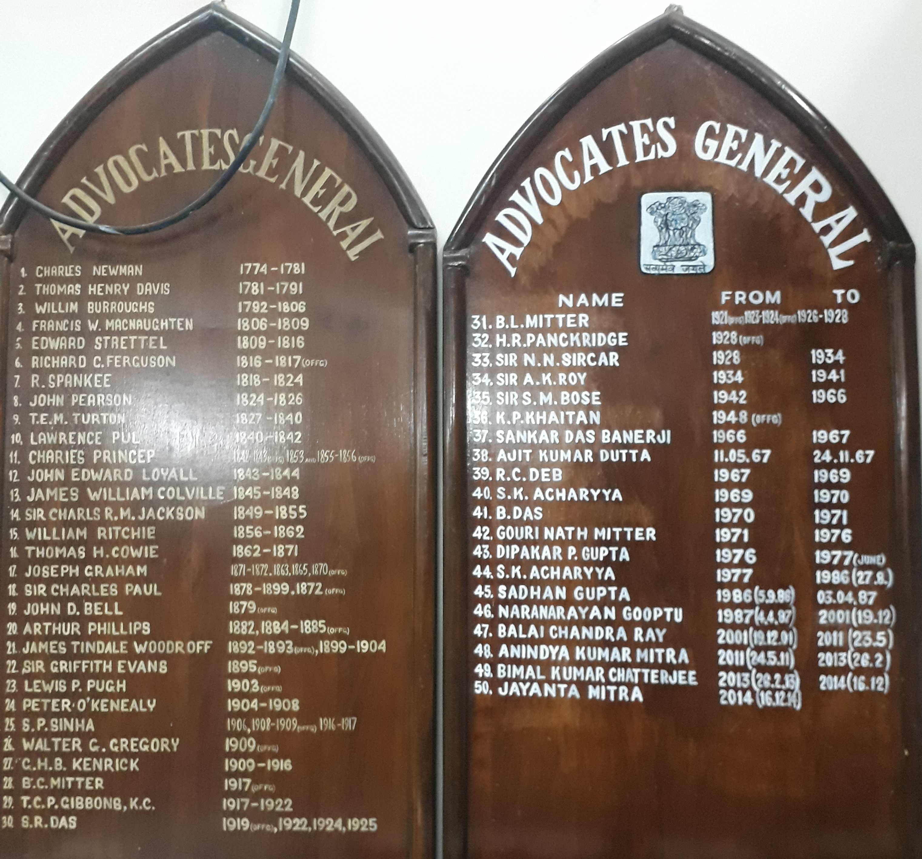 List of Advocate General of Bengal or Calcutta High Court